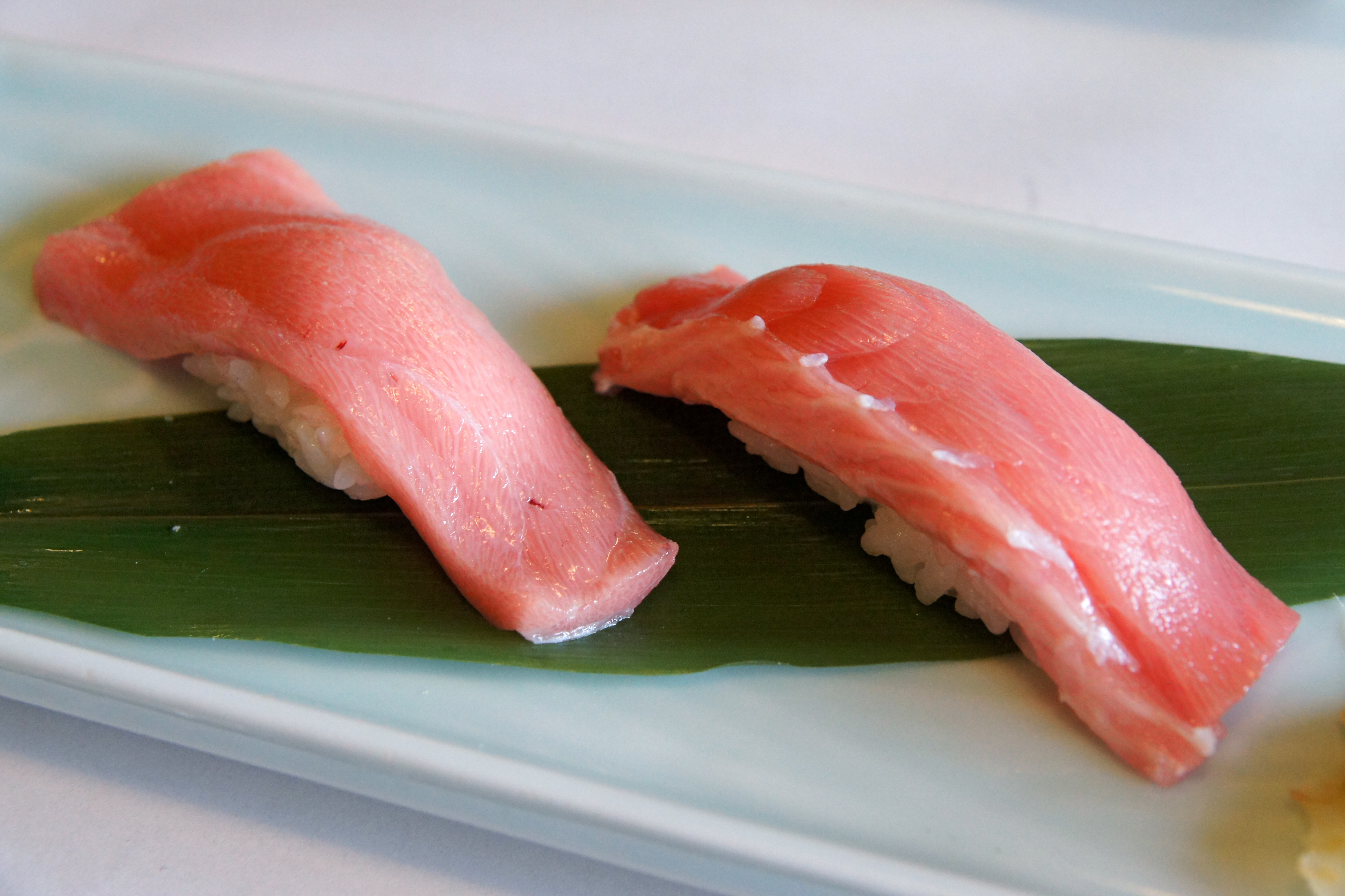 Rokusanen in Wakayama, Wakayama prefecture, Japan